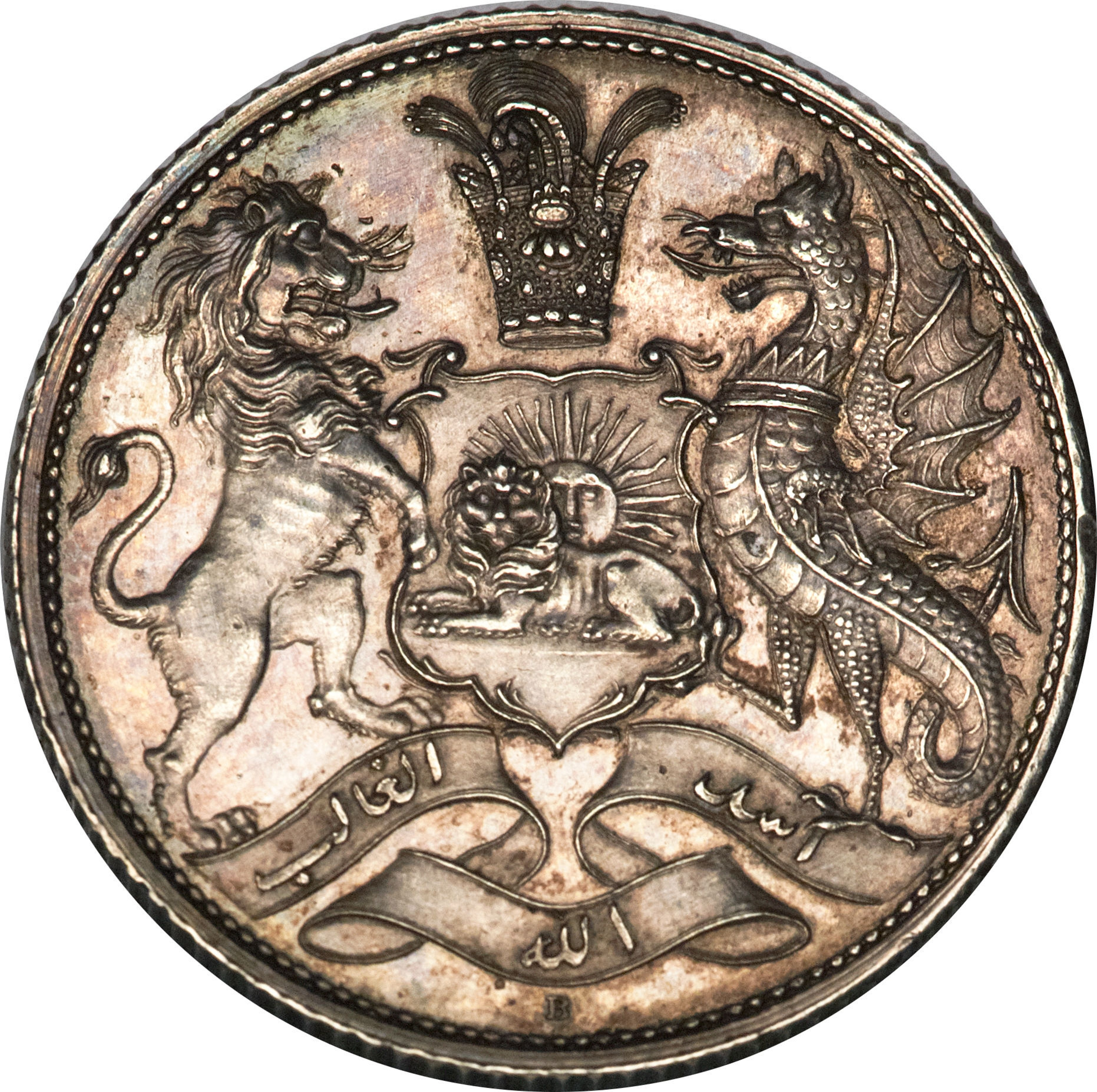 Reverse of 1 Qiran Iranian Silver Coin - Fath Ali Shah Qhajar - 1830 - On the coin there are lion and sun, standing dragon and lion and Asadullah the conquerer (title of Ali ebn Abitalib).